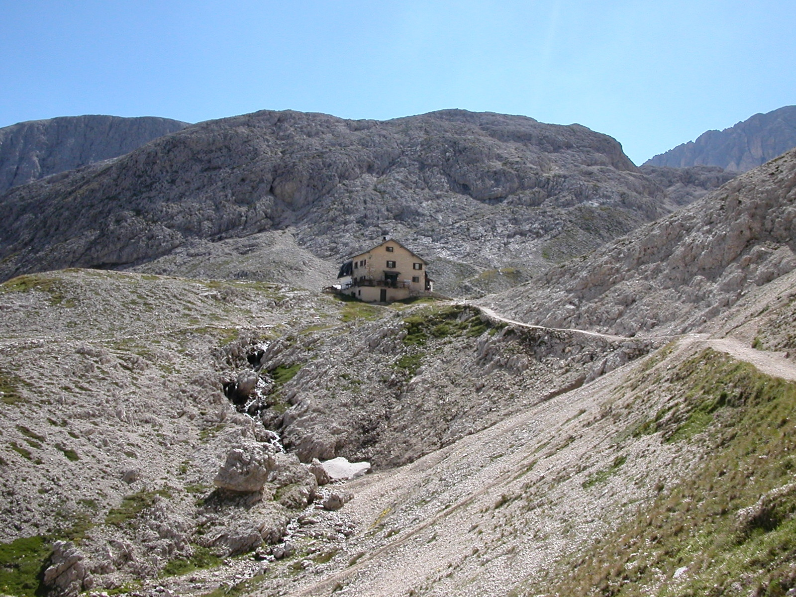 Rifugio Antermoia on the Catinaccio Group